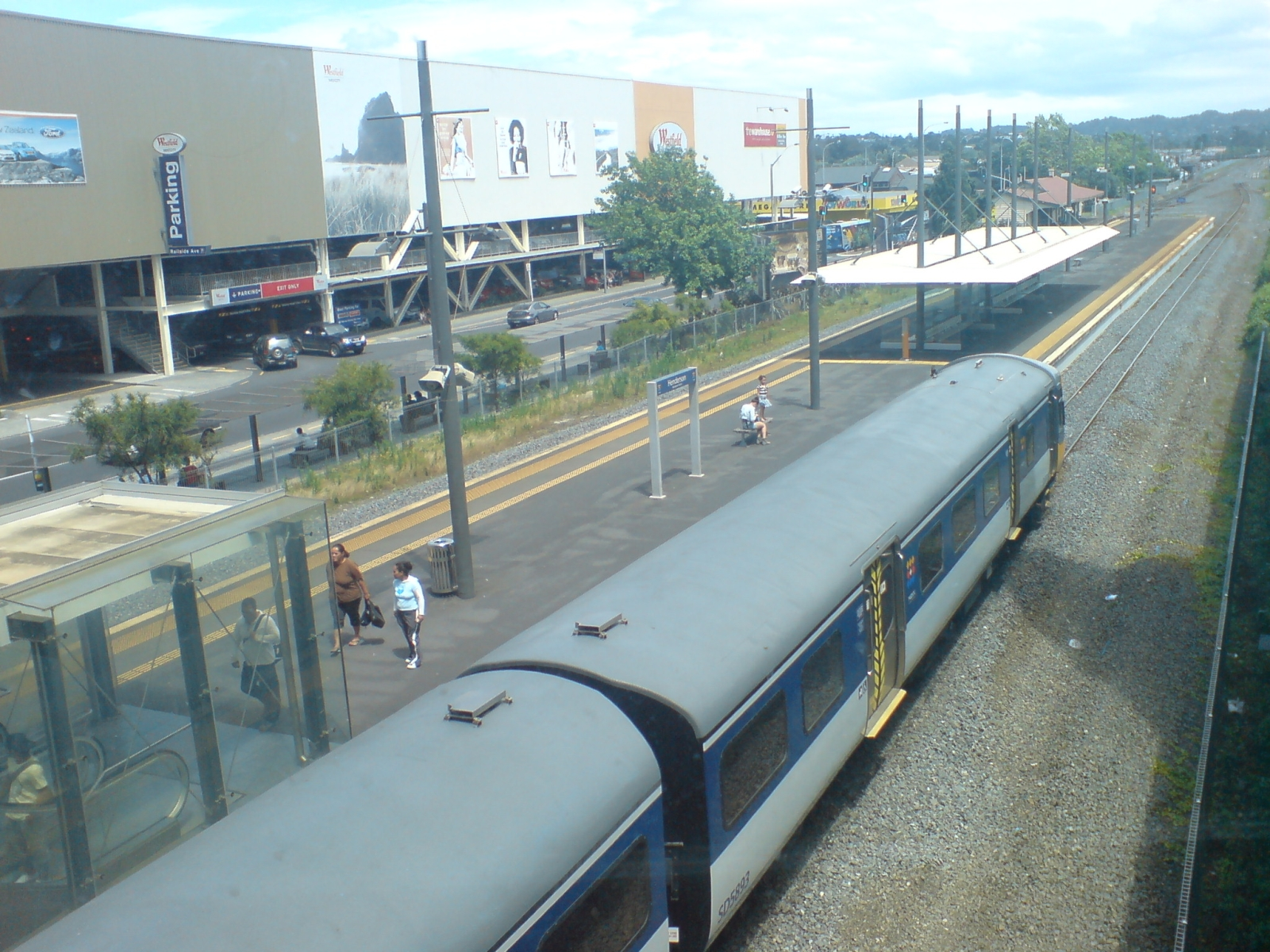 Henderson Train Station in Auckland, New Zealand. Looking south from the Council offices overbridge.